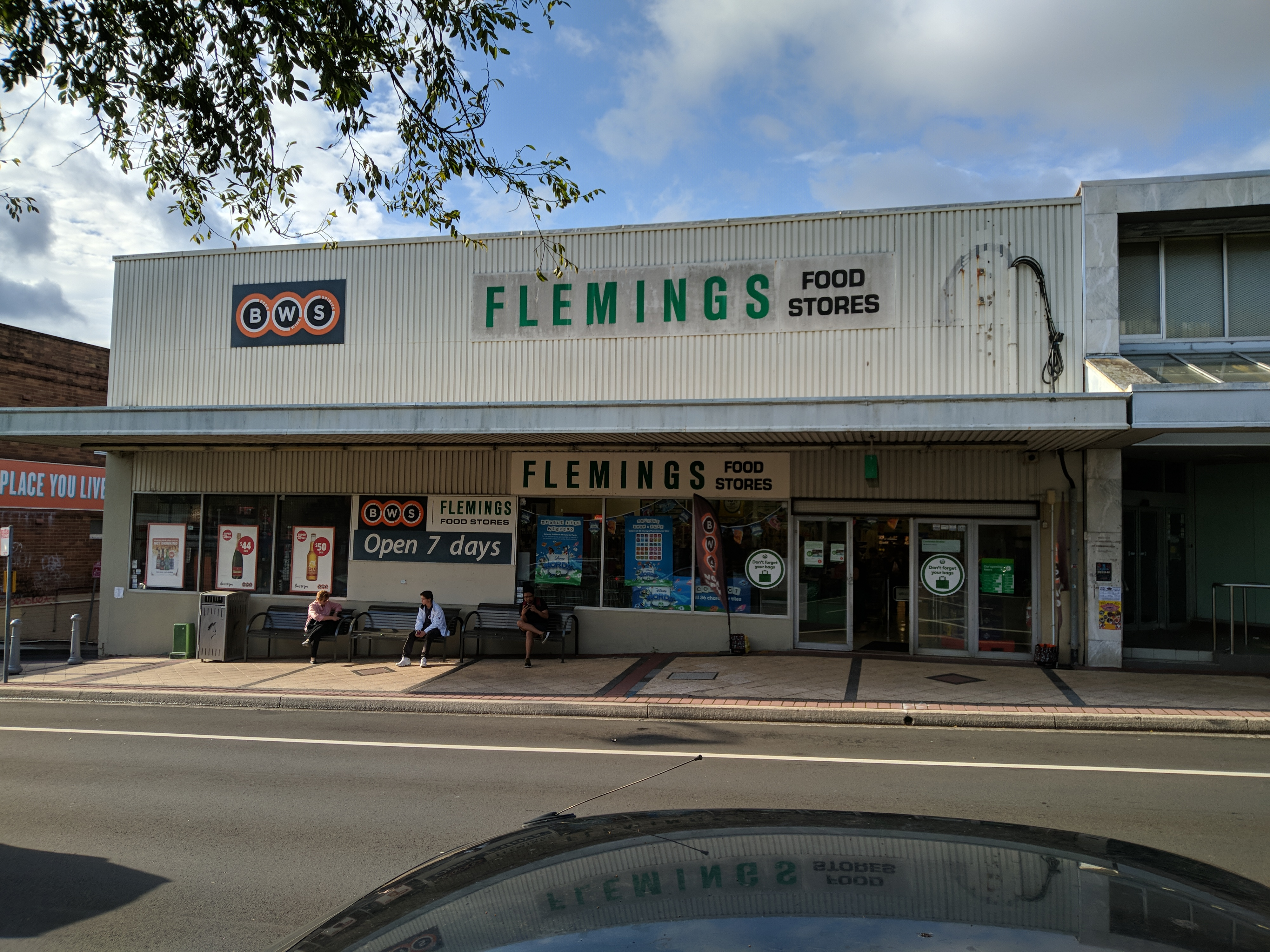 Exterior of the last remaining Flemings-branded supermarket in Jannali, NSW.